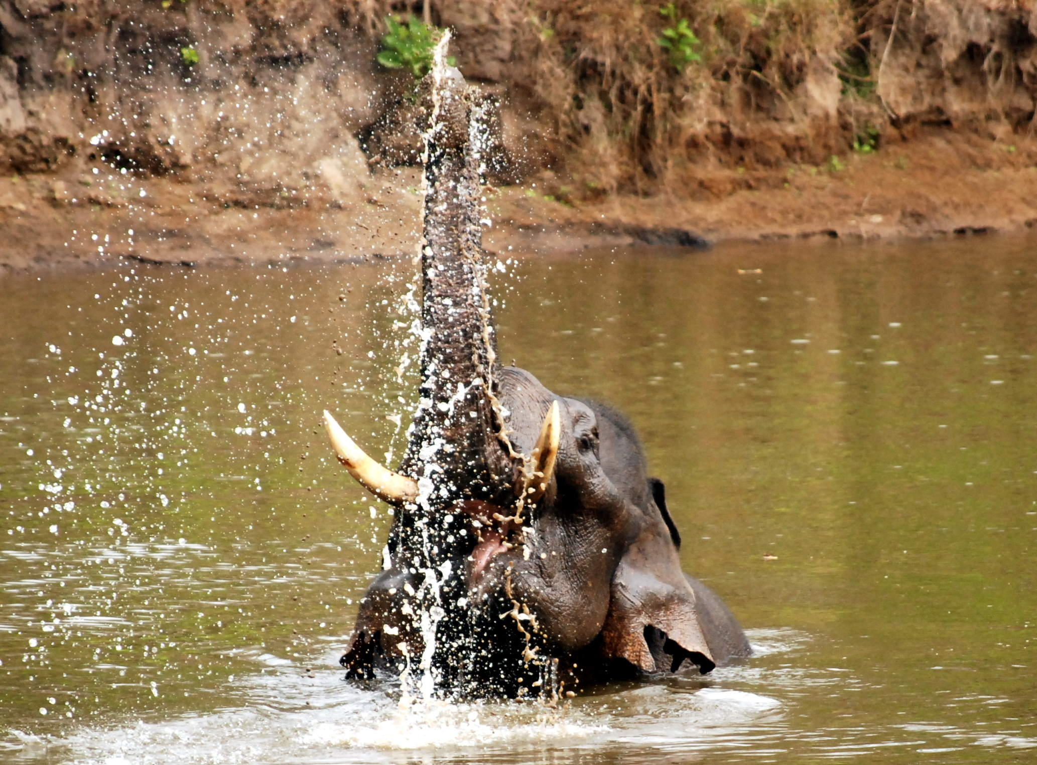 Asian Elephant in Nagarhole National Park